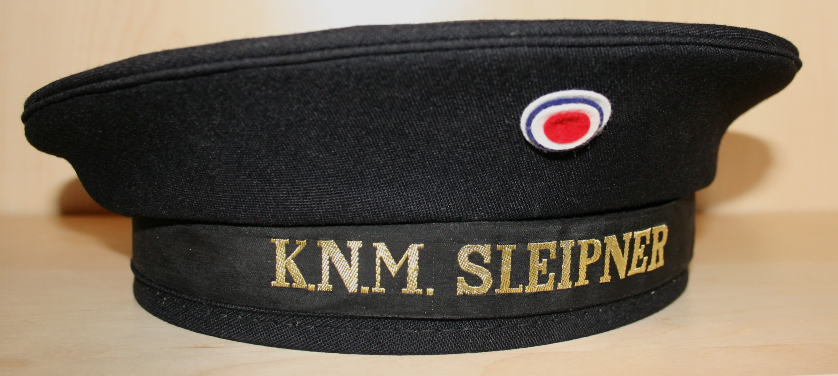 Former hat for privates in the Royal Norwegian Navy. The name shows that the owner of this hat served on the corvette KNM Sleipner (sunk in live practice in 2002).